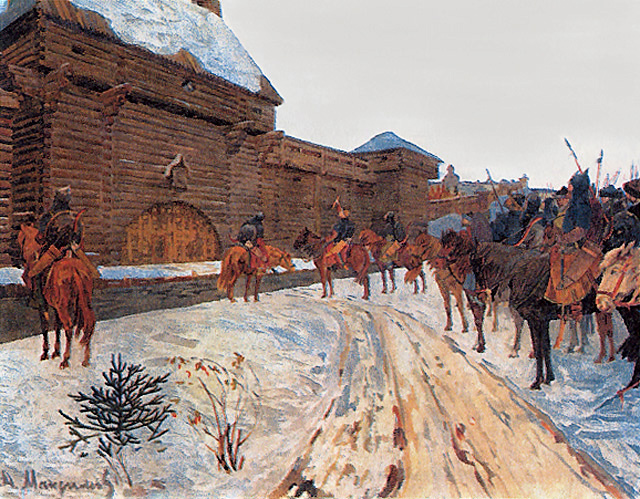 Mongols at the Walls of Vladimir.